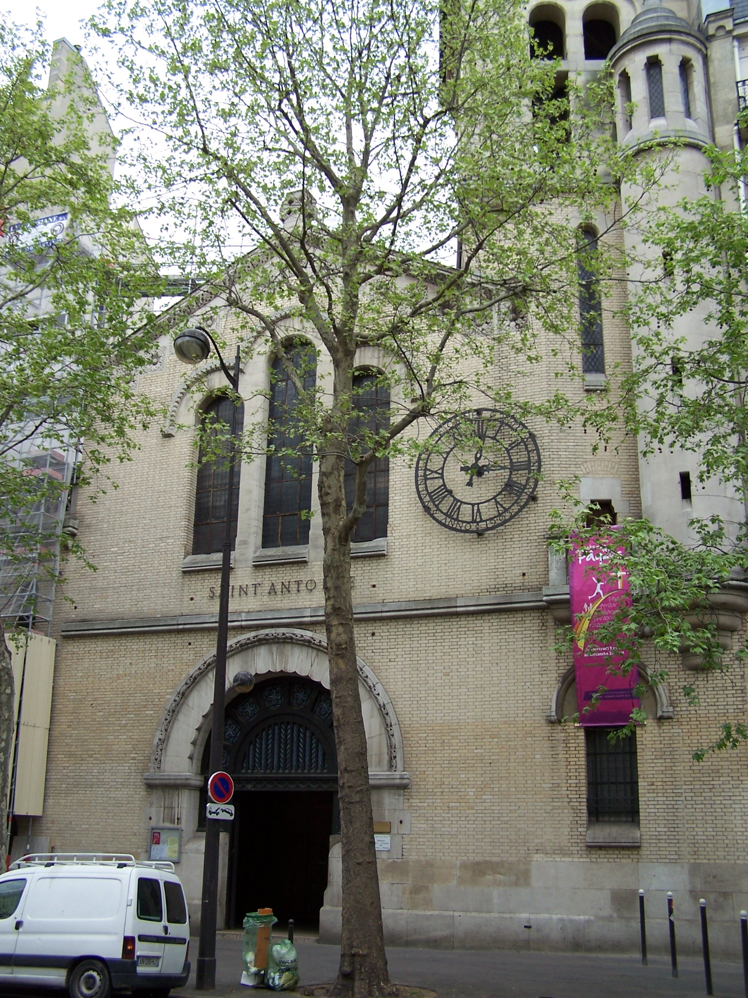 View of the church in Paris